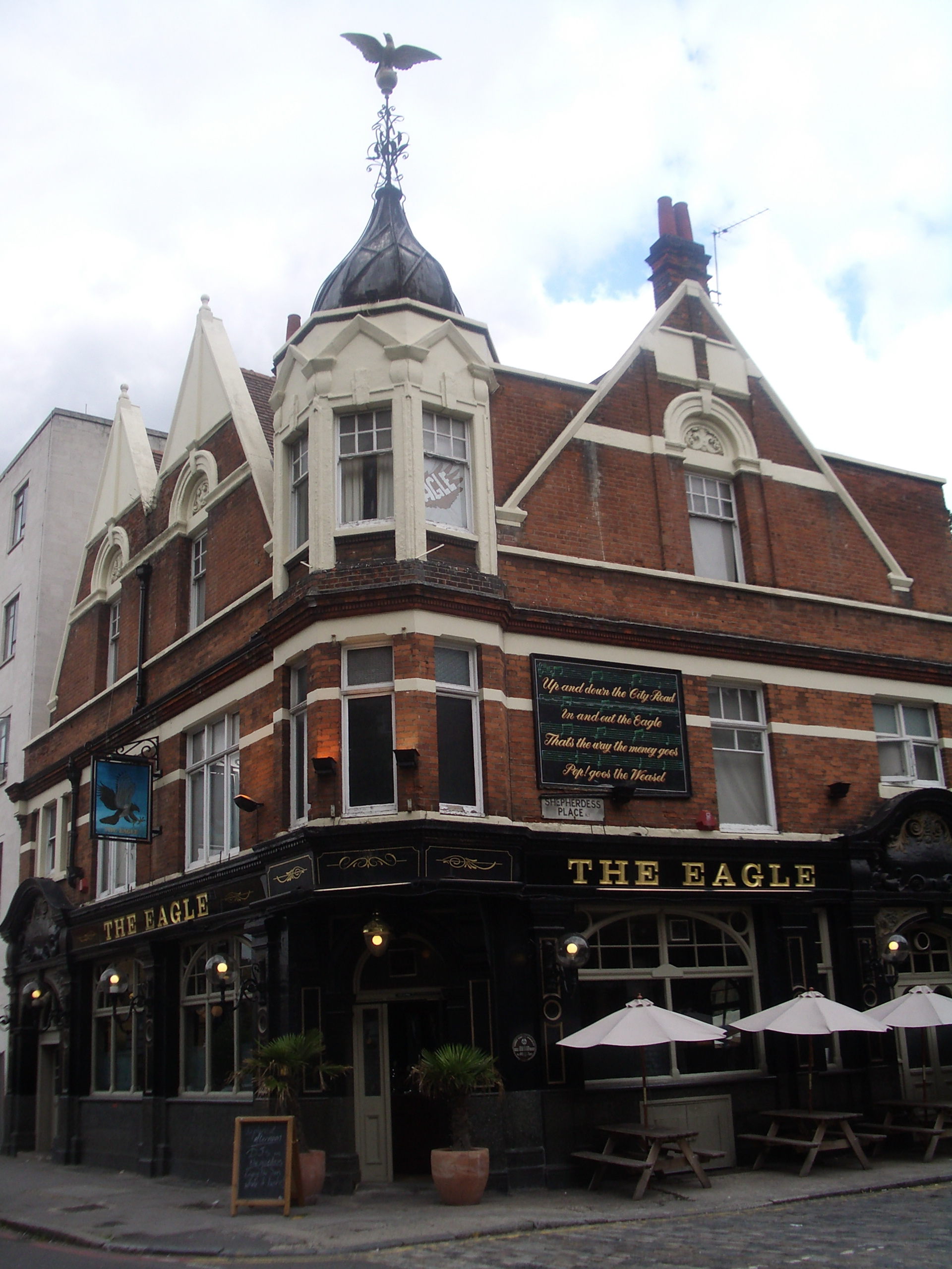 The Eagle pub, City Road, London, mentioned in nursery rhyme "Pop goes the weasel" 2 Shepherdess Walk, Old Street, London, N1 7LB